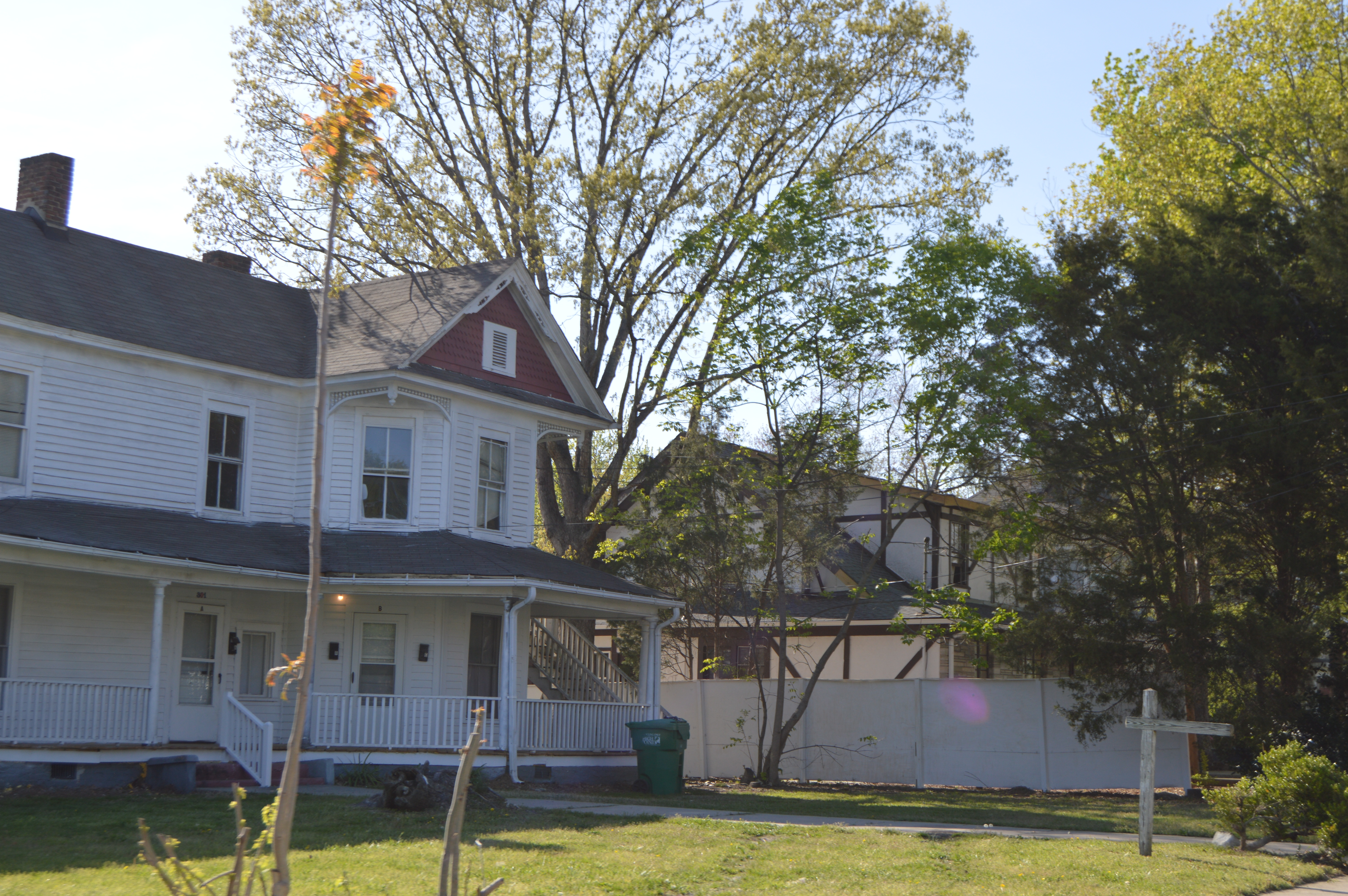 Houses on the western side of Oakwood Street just north of Newton Place in High Point, North Carolina, United States. This block is part of the Oakwood Historic District, a historic district that is listed on the National Register of Historic Places.